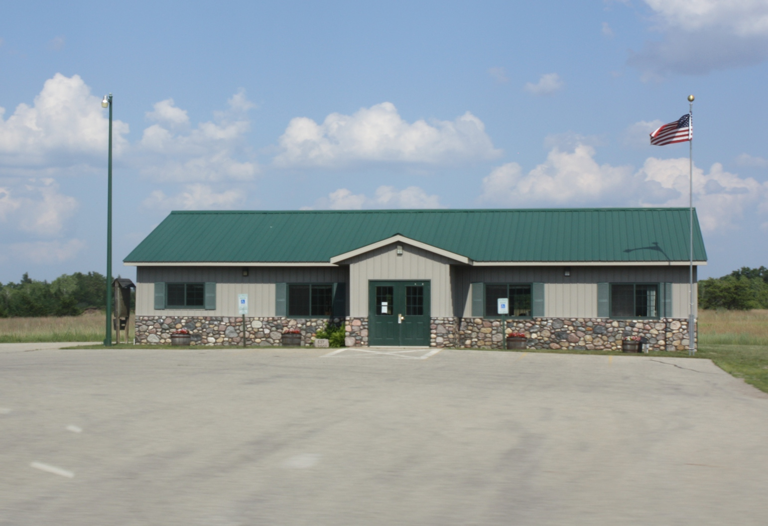 The town hall for the town of Athlestane, Wisconsin.